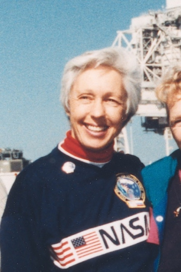 Exuberant and thrilled to be at the Kennedy Space Center, seven women who once aspired to fly into space stand outside Launch Pad 39B neat the Space Shuttle Discovery, poised for liftoff on the first flight of 1995. They are members of the First Lady Astronaut Trainees (FLATs, also known as the "Mercury 13"), a group of women who trained to become astronauts for Americas first human spaceflight program back in the early 1960s. Although this FLATs effort was never an official NASA program, their commitment helped pave the way for the milestone Eileen Collins set: becoming the first female Shuttle pilot. Visiting the space center as invited guests of STS-63 Pilot Eileen Collins are (from left): Gene Nora Jessen, Wally Funk, Jerrie Cobb, Jerri Truhill, Sarah Rutley, Myrtle Cagle and Bernice Steadman.This is an edit of the original image, cropped to show only Wally Funk.